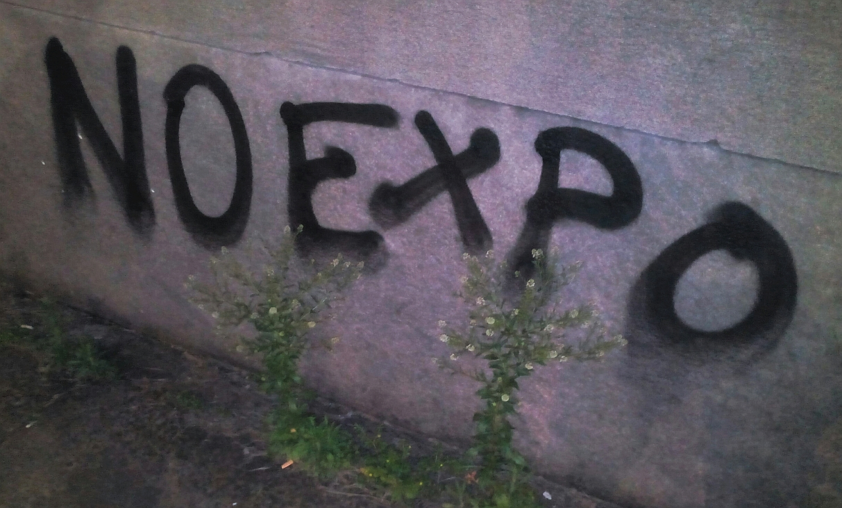 NO EXPO, graffiti in Turin (Italy), lungo Dora Siena